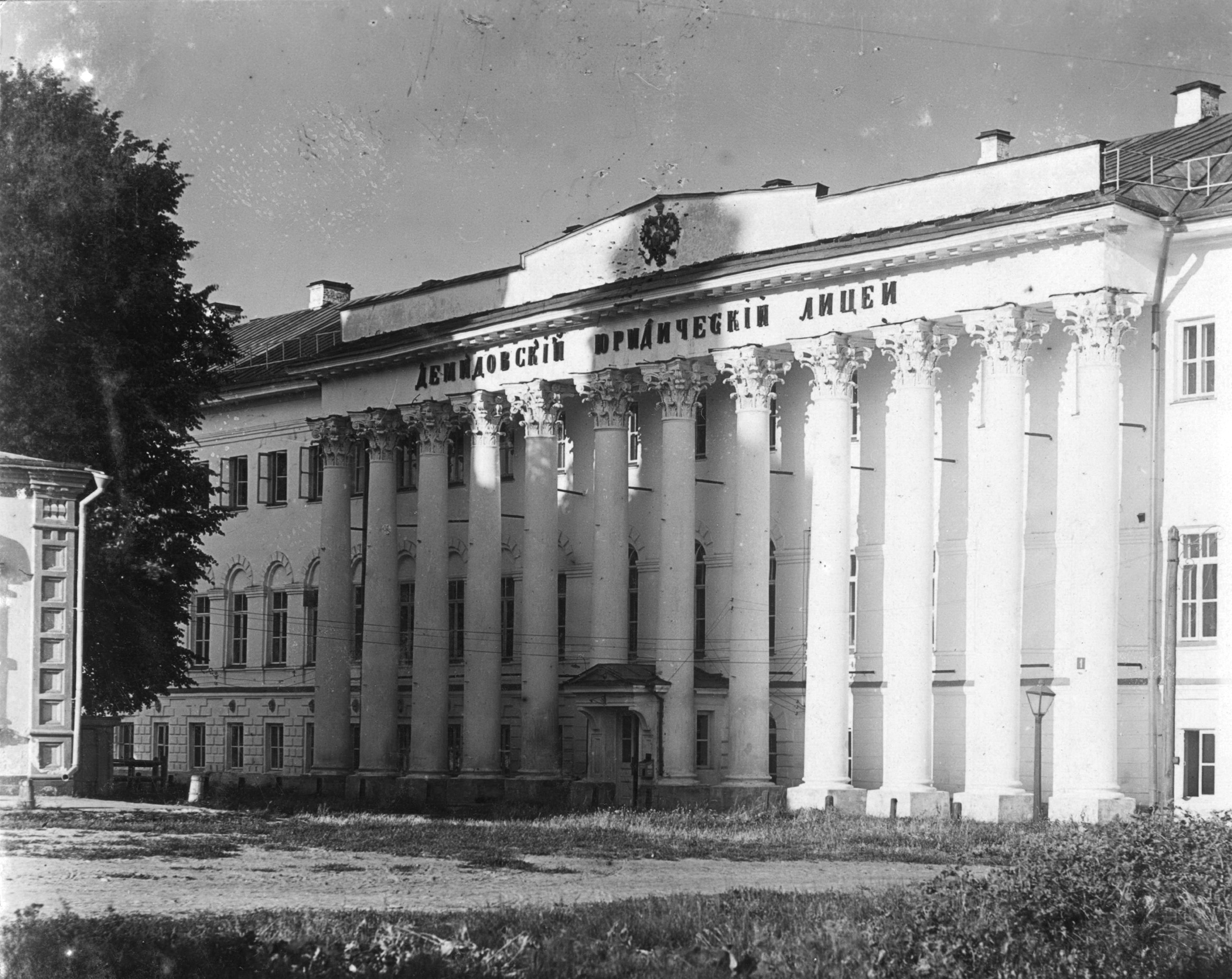 Demidov Juridical Lyceum. Yaroslavl. Photo by S. M. Prokudin-Gorsky. 1910.